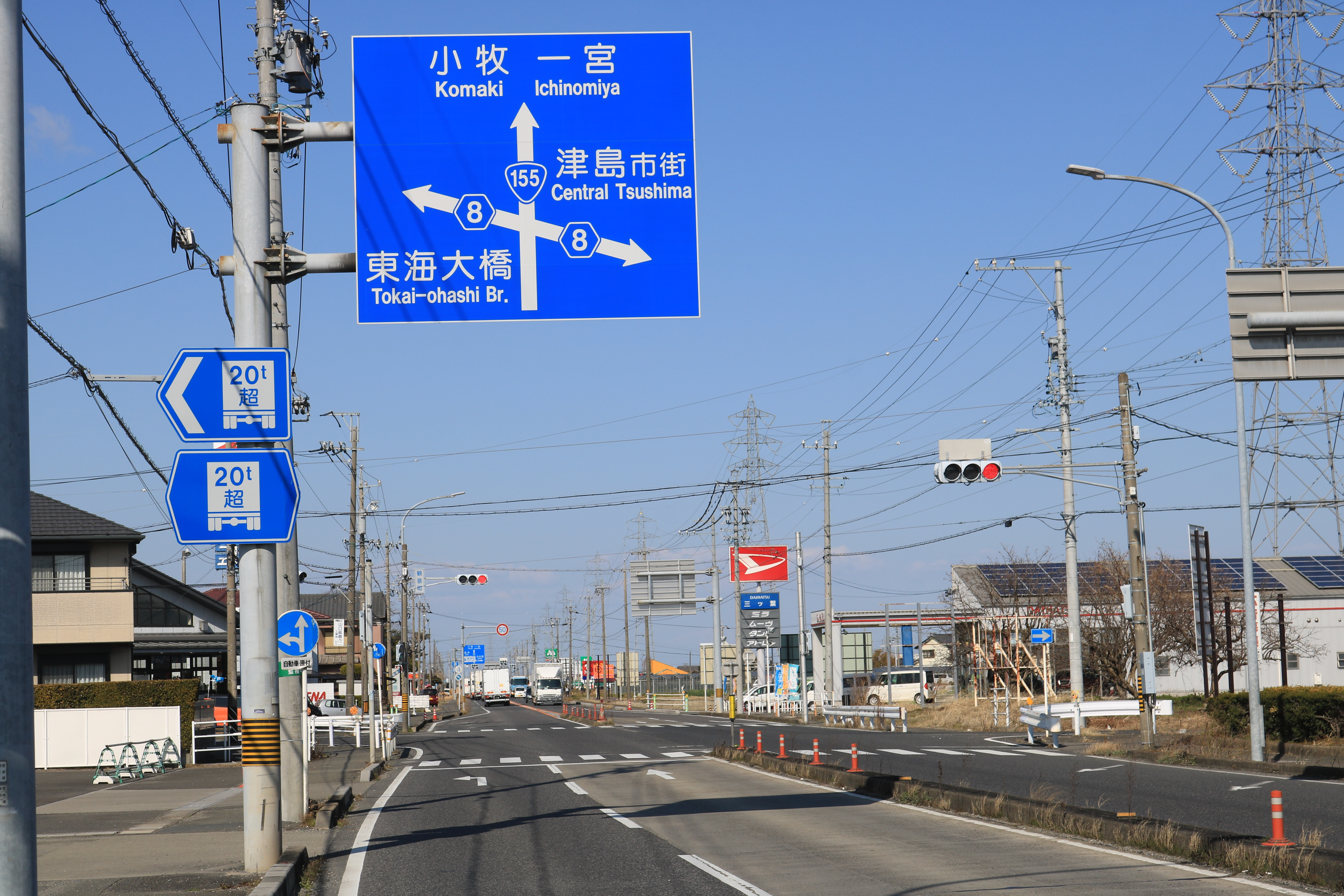 Route 155 in Kannoncho, Tsushima, Aichi Prefecture, Japan.